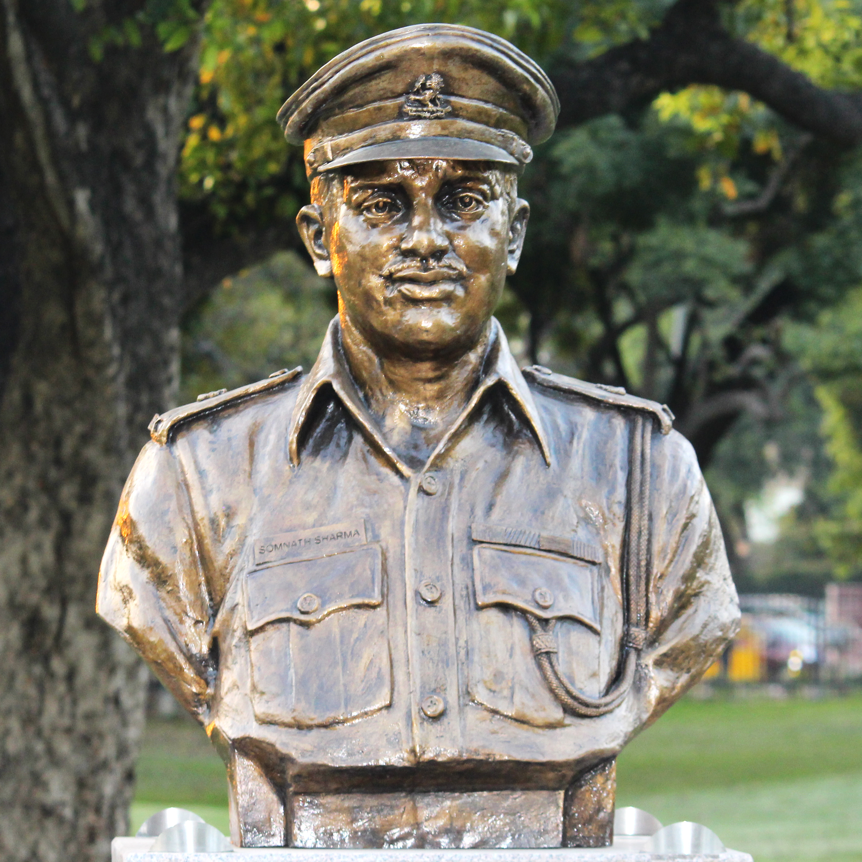 Major Somnath Sharma's statue at Param Yodha Sthal (section for Param Vir Chakra recipients), National War Memorial, New Delhi.